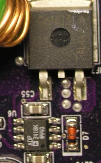 MOFSET driver ADP3418 (below), used to for driving two high power N-channel field transistors. Above, it sis seen a large power N-channel high frequency transistor 06N03LA, typically used in DC/DC power converters. It is probably driven by that driver, despite without wiring diagram it is difficult to be sure. Photo by Audrius Meskauskas Audriusa 13:15, 22 January 2006 (UTC)